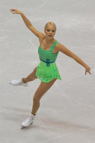 Elena Glebova at the 2009 Skate America.